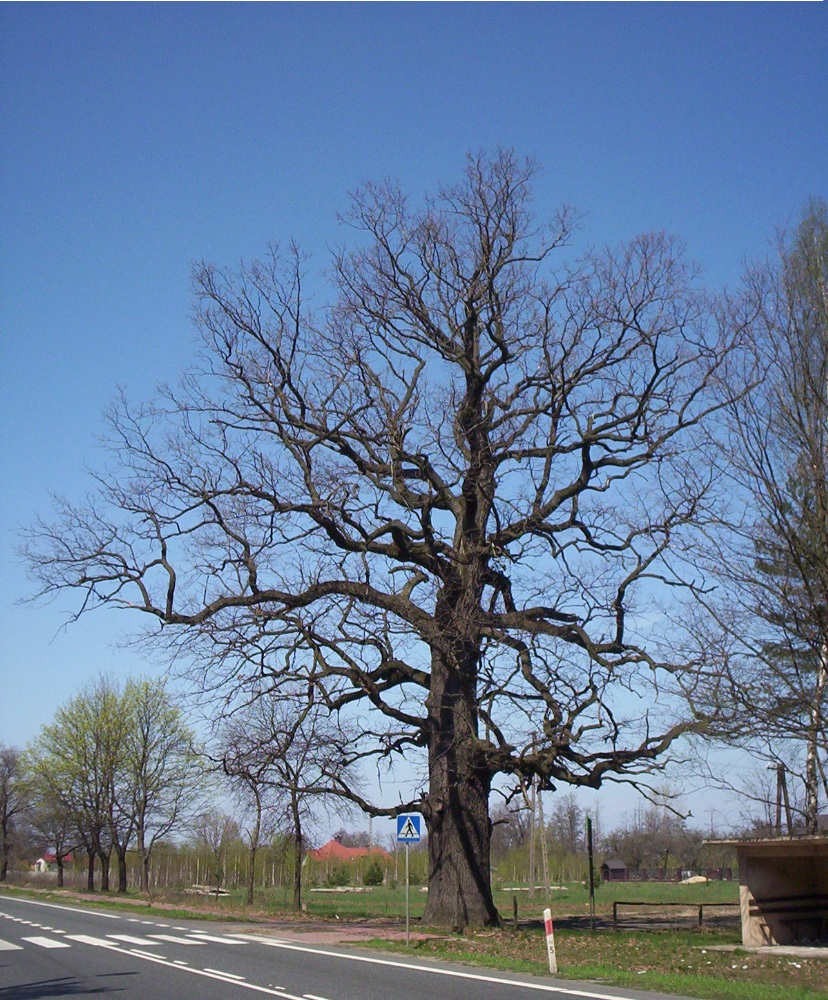 Quercus robur - monument of nature in Korytów, Poland.